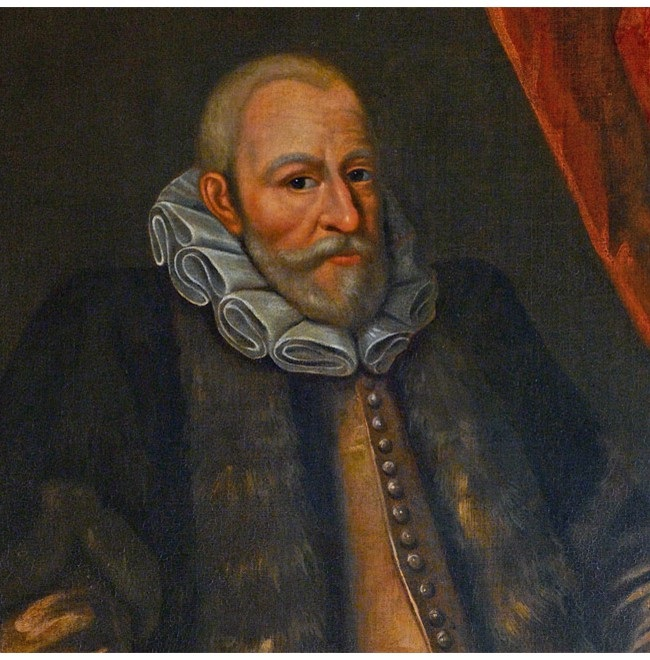 William Jones heberdasher founder of Monmouth School died 1615